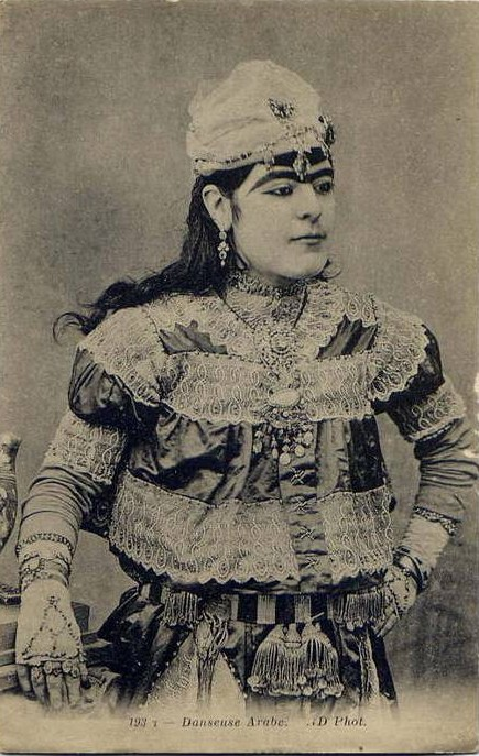 Ottoman köçek dancer "Danseuse Arabe", postcard photograph.